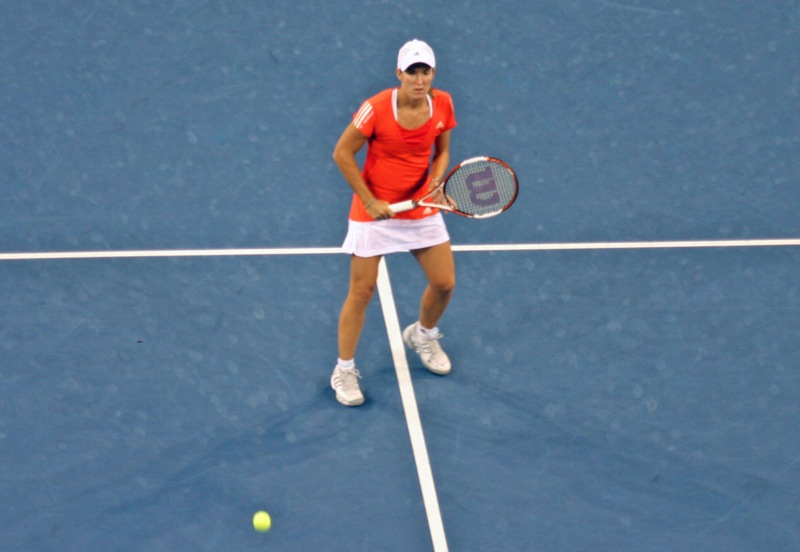 At the 2007 US Open, final.